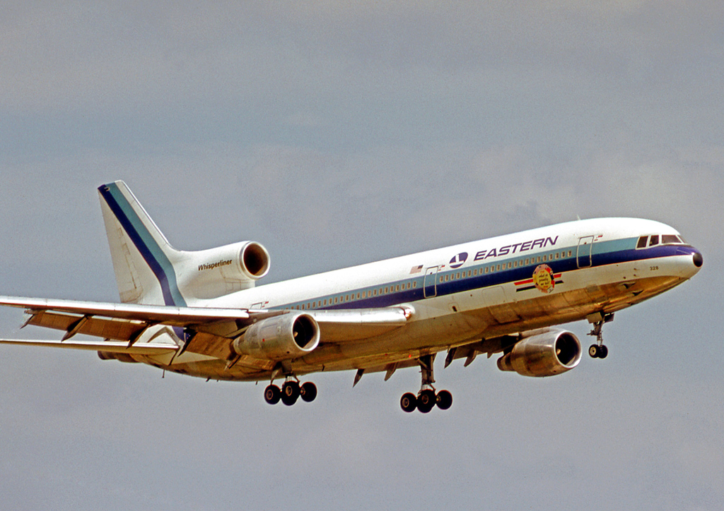 Lockheed L-1011-1 TriStar N328EA at Miami Airport in 1976